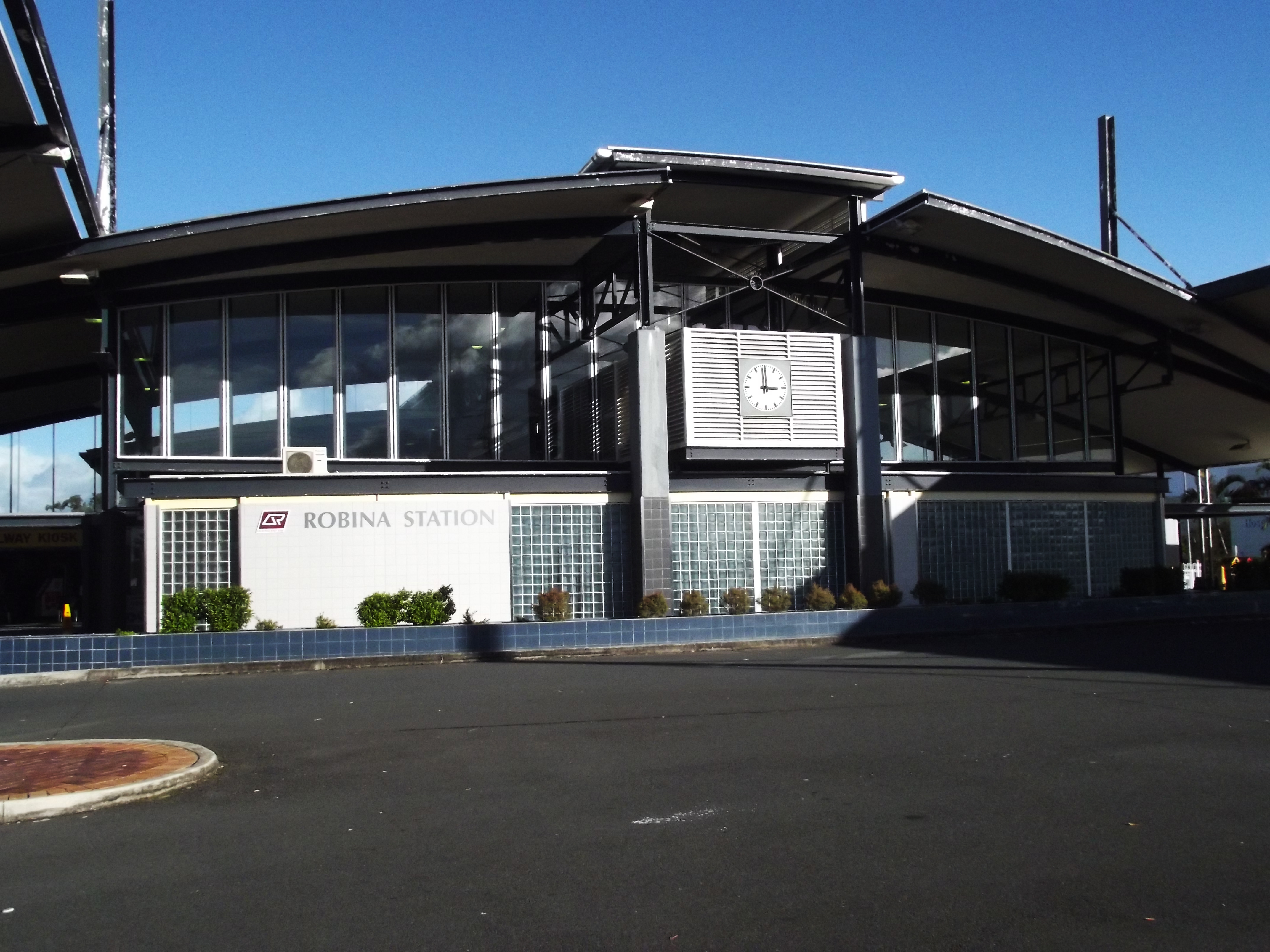 A photo of the Robina railway station operated by TransLink, located in Gold Coast, Queensland.